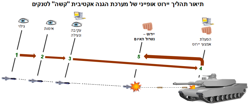 The process interception of anti-tank missile by active protection system